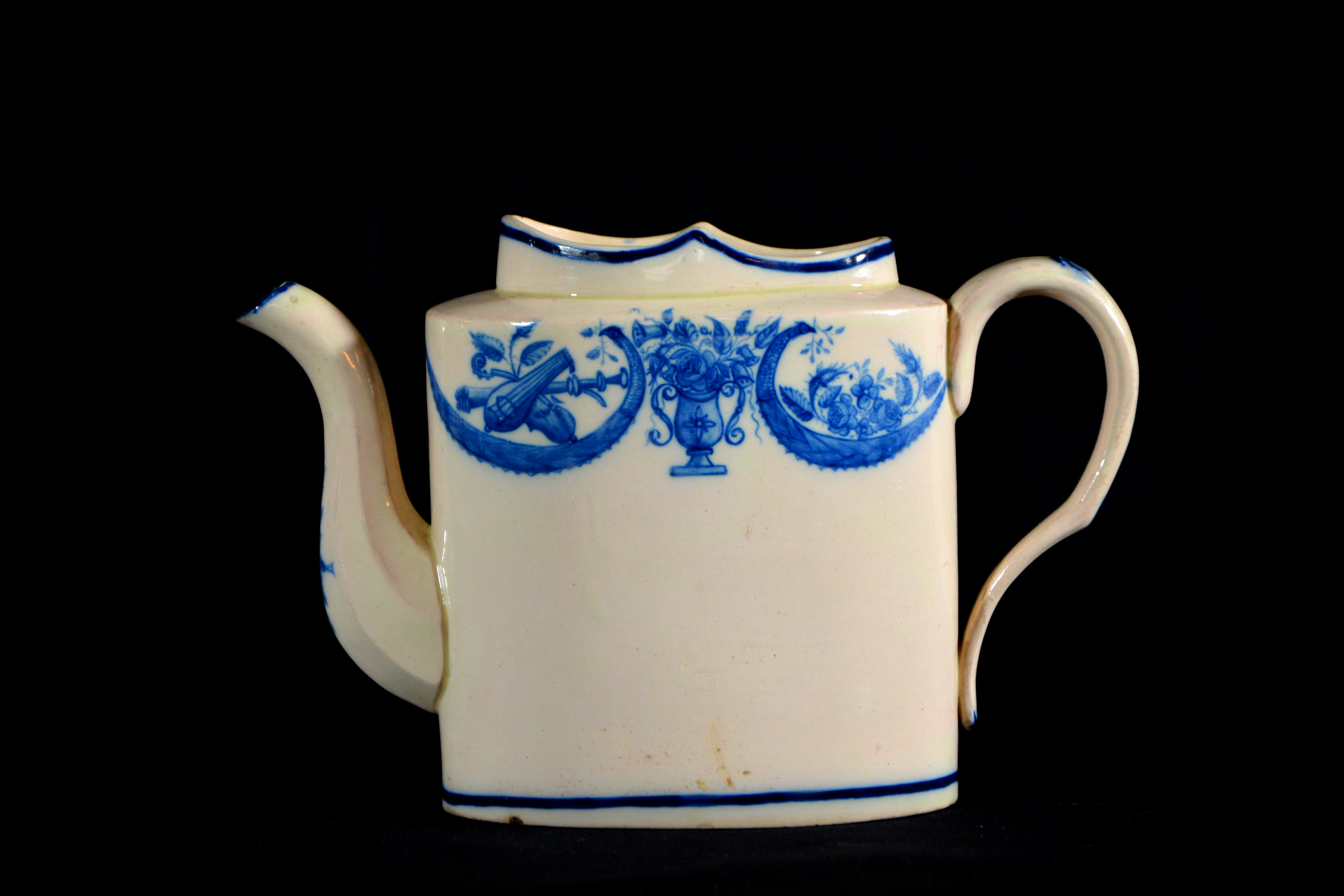 This is a file created at the museum: Ceramic Museum in Andenne